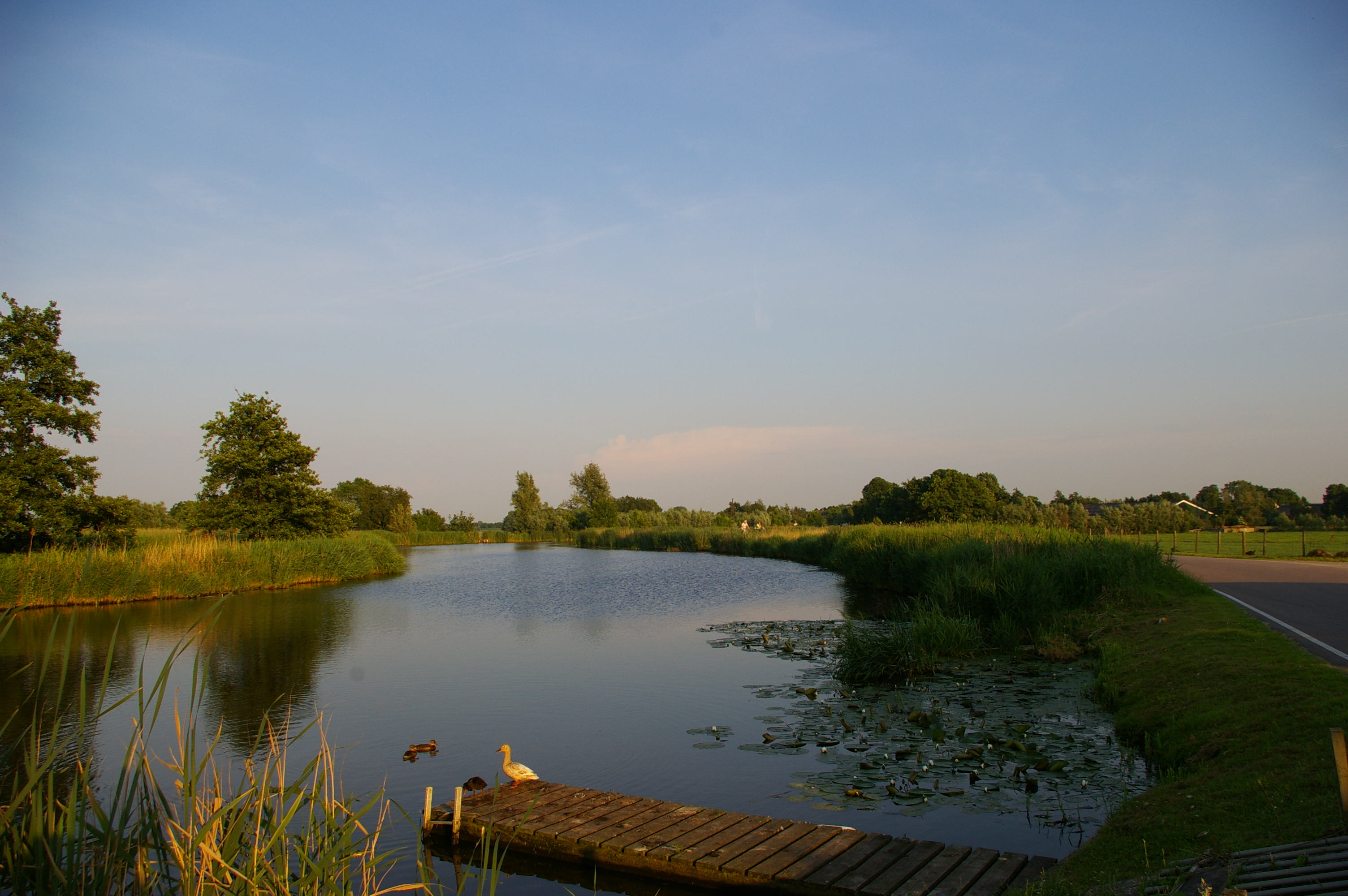 Waver river, near Bullewijk river, south of Amsterdam, used on Waver (rivier)